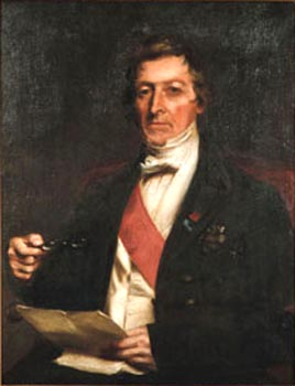 Sir Thomas Makdougall Brisbane (1773-1860), by F. Schenck, c.1850, State Library of New South Wales, GPO 2 - 51937